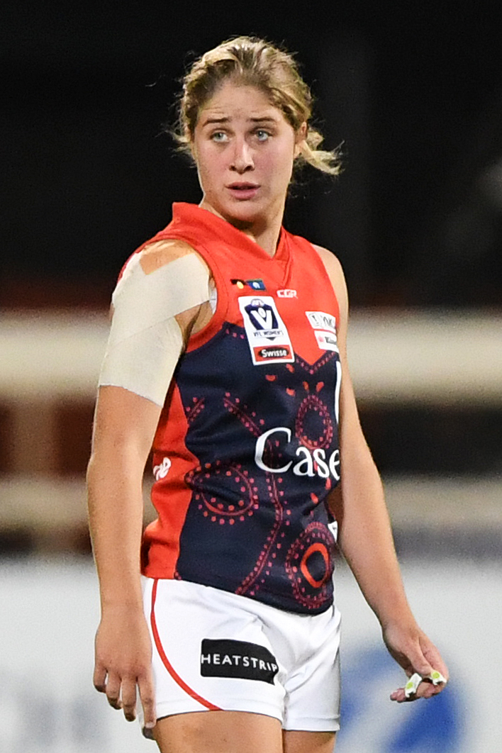 Katherine Smith of Casey during the 2019 VFLW round 11 match between NT Thunder and Casey at Traeger Park on Saturday, 20 July 2019 in Alice Springs, Northern Territory.